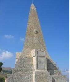 Obelisk in Gibilrossa, in the province of Palermo in Sicily.